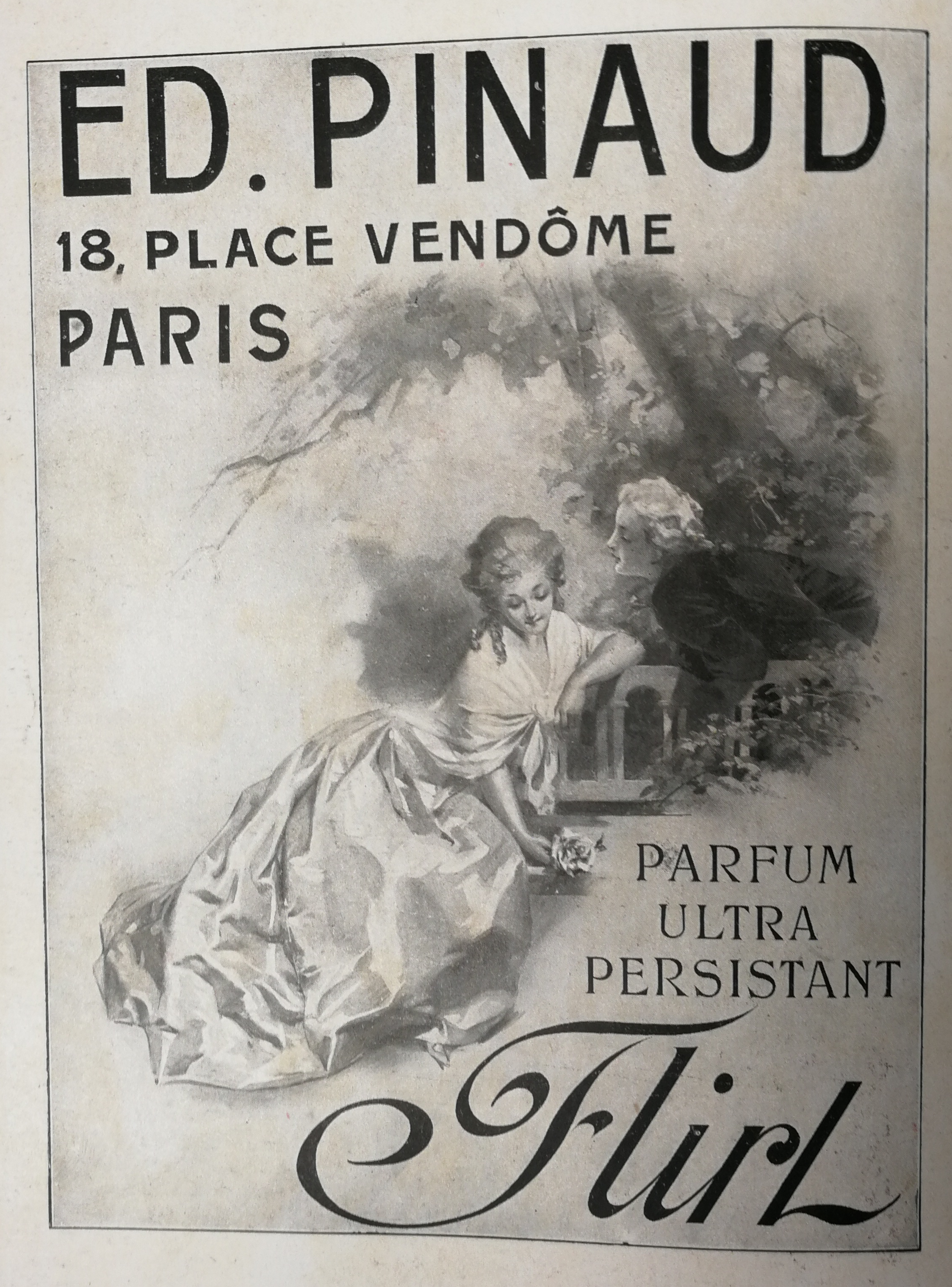 Ed. Pinaud 18 place Vendôme Paris Parfum Ultra Persistant Flirt: advertising published in black and white printing in Je sais tout, a French magazine (Paris) for a perfume called Flirt [or Flirl?].